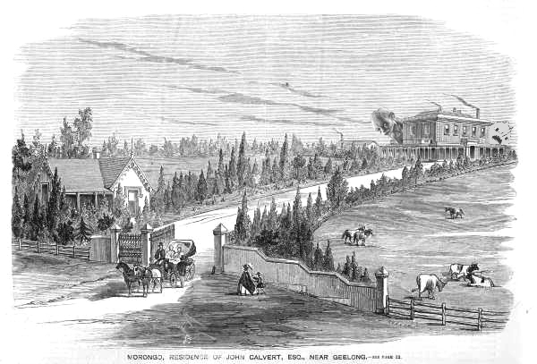 Morongo, residence of John Calvert, esq., near Geelong.